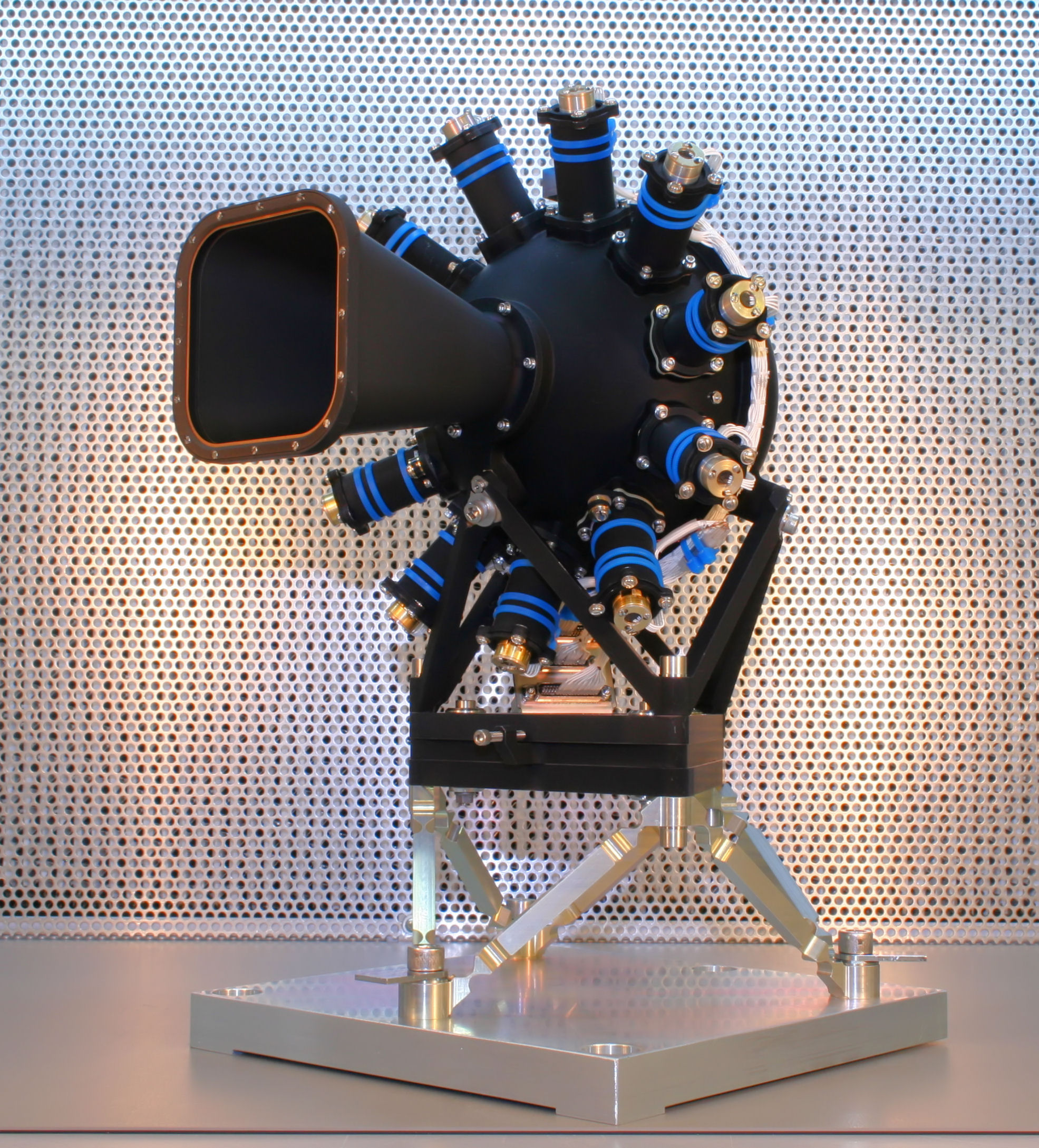 The Calibration Assembly, one component of the NIRSpec instrument which will form part of the James Webb Space Telescope, at University College London prior to integration.